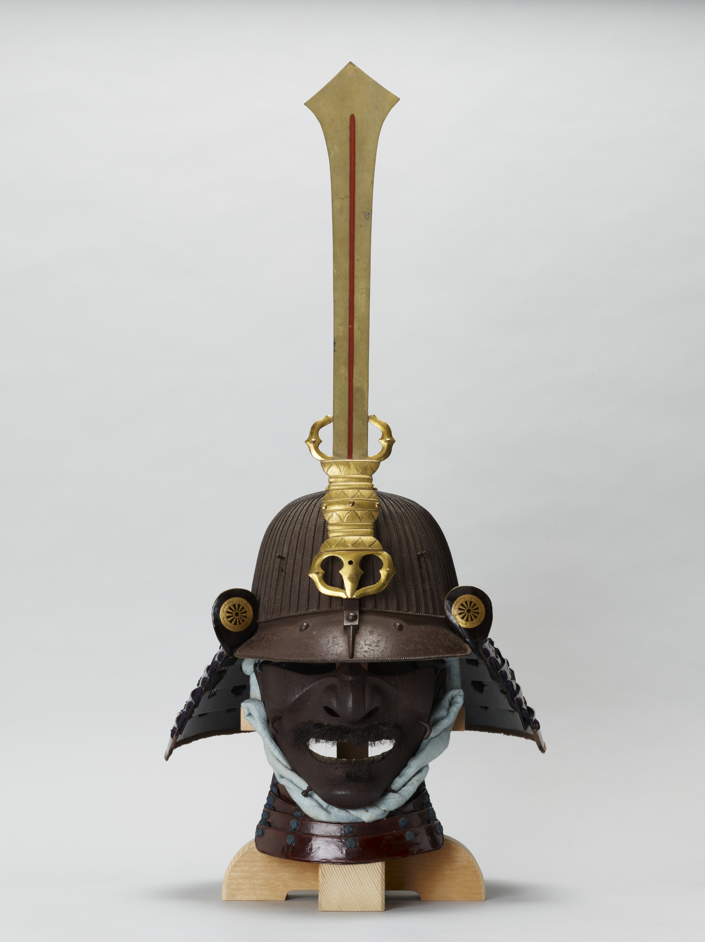 Kabuto of Gusoku Style Armor With black lacing, Edo period, 17th century, Tokyo National Museum, Important Cultural Property